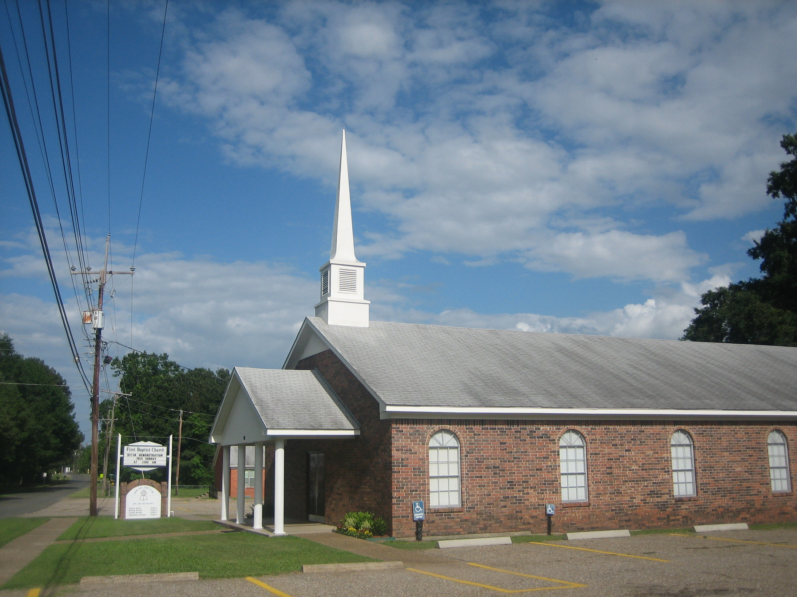 I took photo on May 21, 2009.Billy Hathorn (talk) 16:43, 29 May 2009 (UTC)